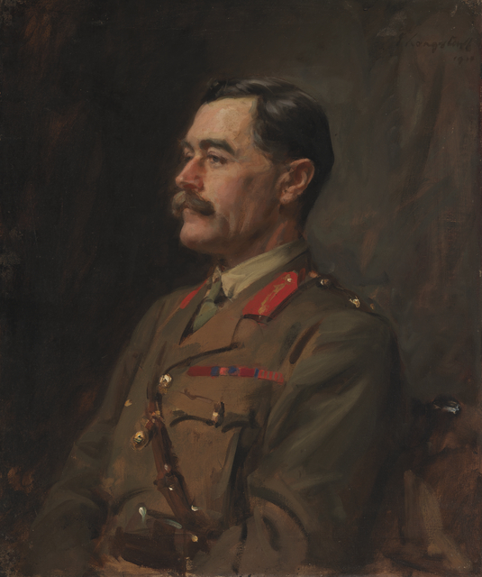 Portrait of Australian Brigadier-General (later Major-General) Walter Adams Coxen